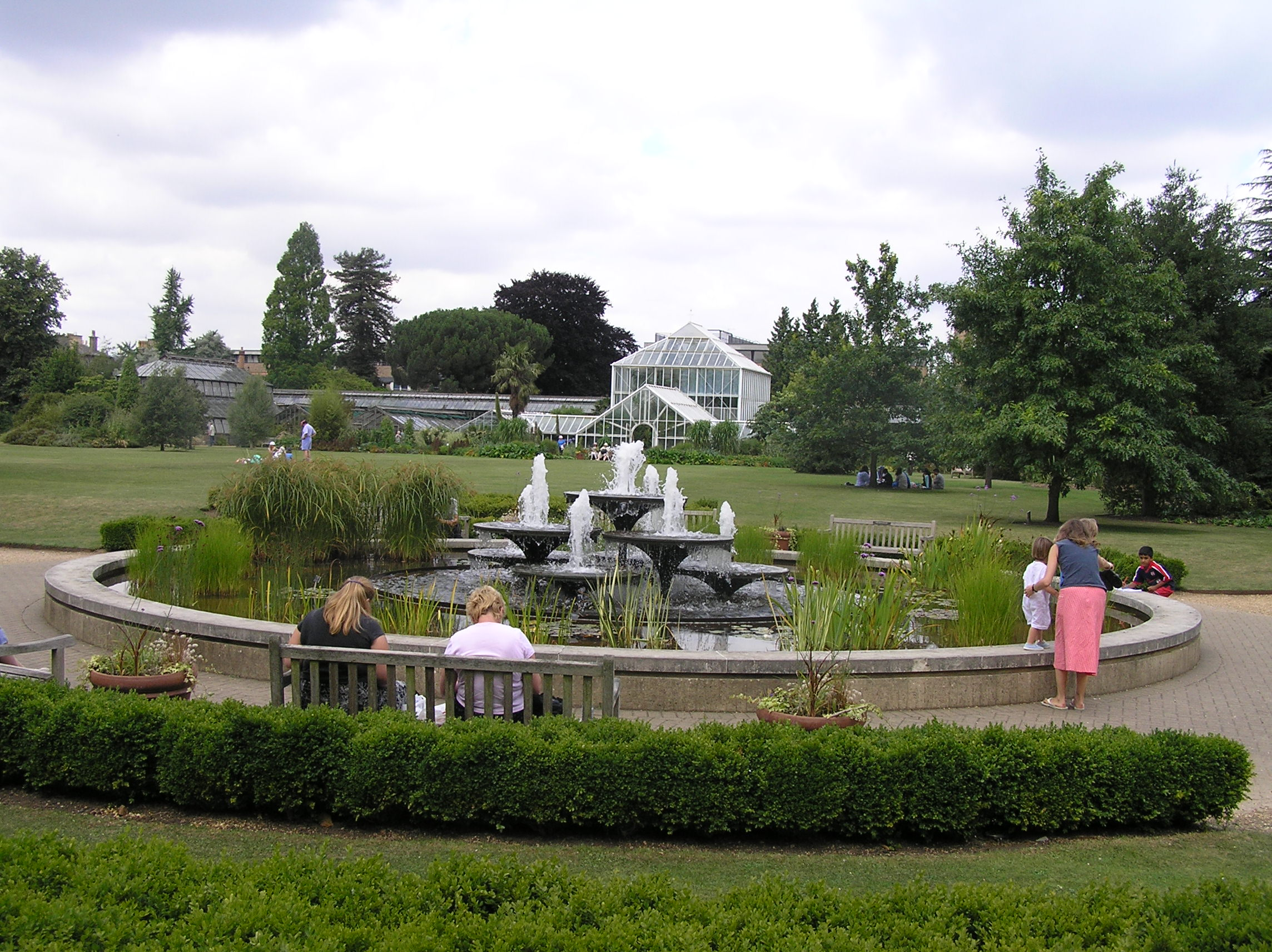 Photograph of Cambridge Botanic garden taken 10th August 2005 by NH Savage, uploaded on the english wikipedia by User:NHSavage